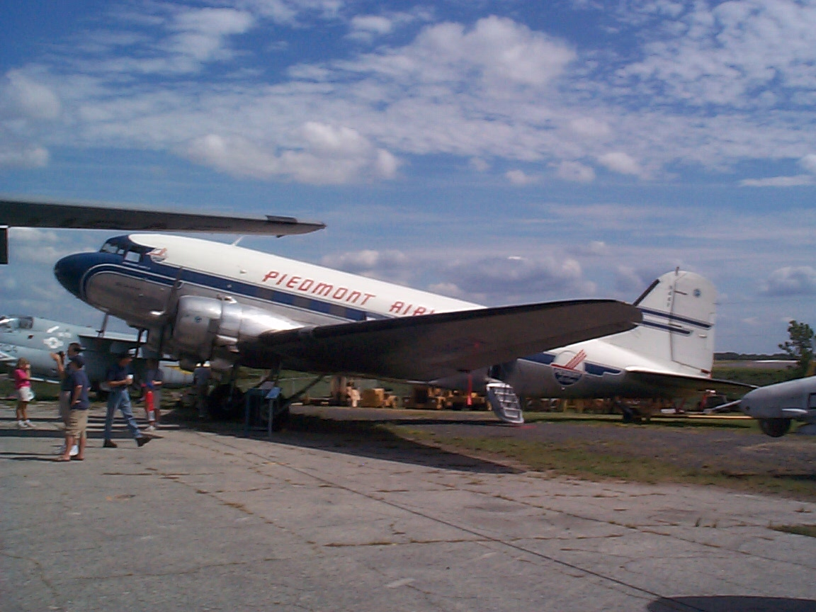 Carolinas Aviation Museum